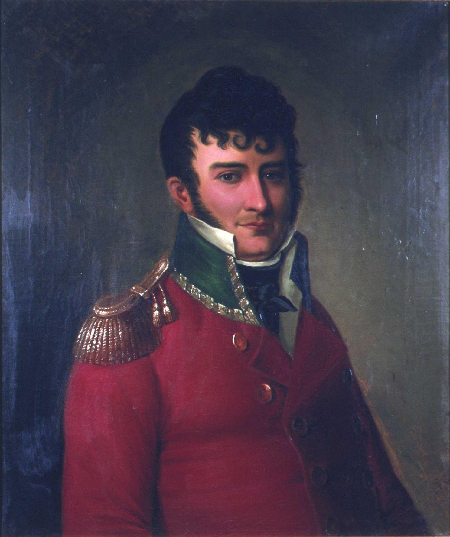 Copy after unknown original.